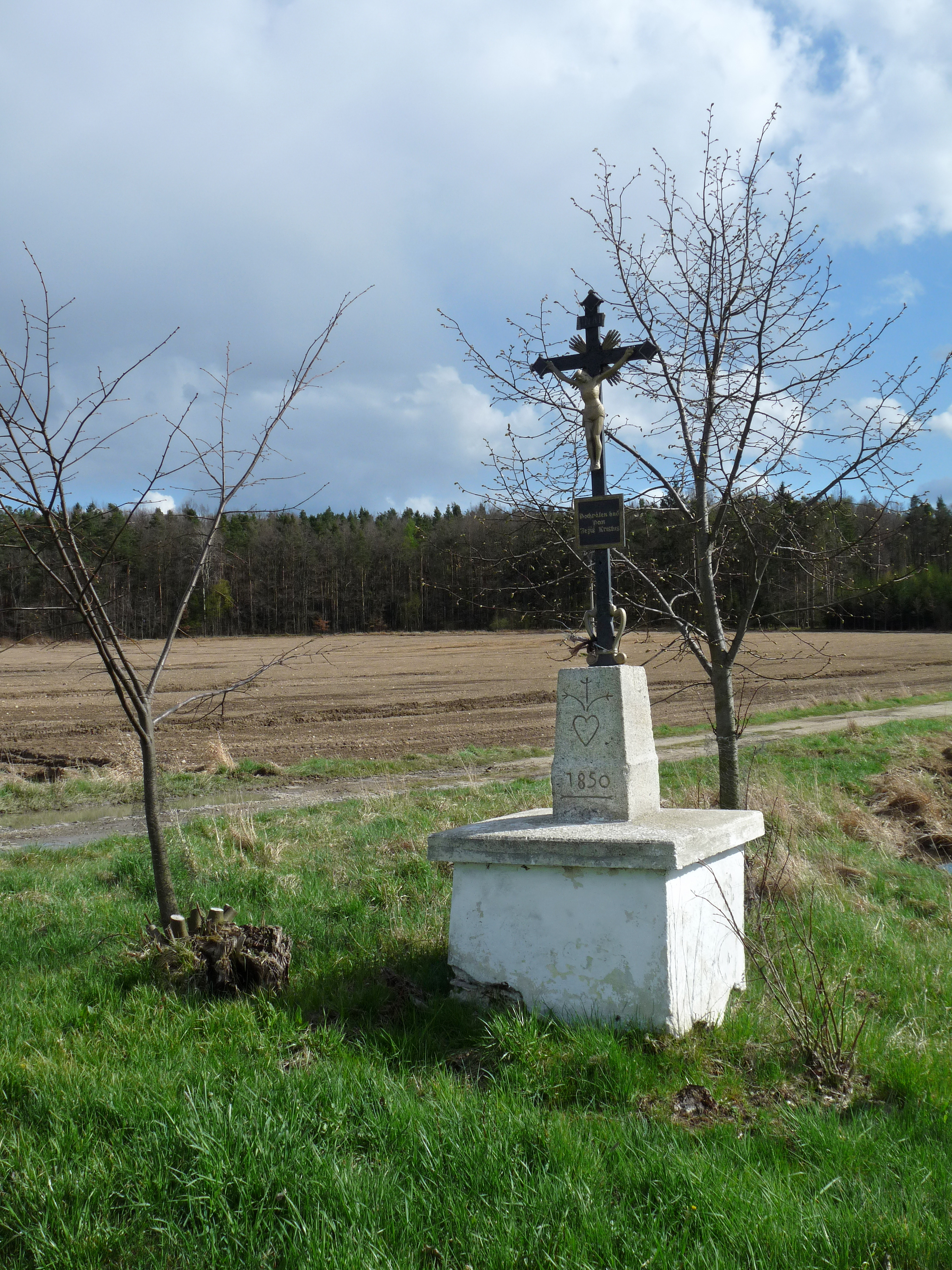 Wayside cross from 1850 in Branišov, České Budějovice, Czech Republic.